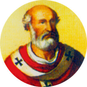 Portait of Pope Lando in the Basilica of Saint Paul Outside the Walls, Rome